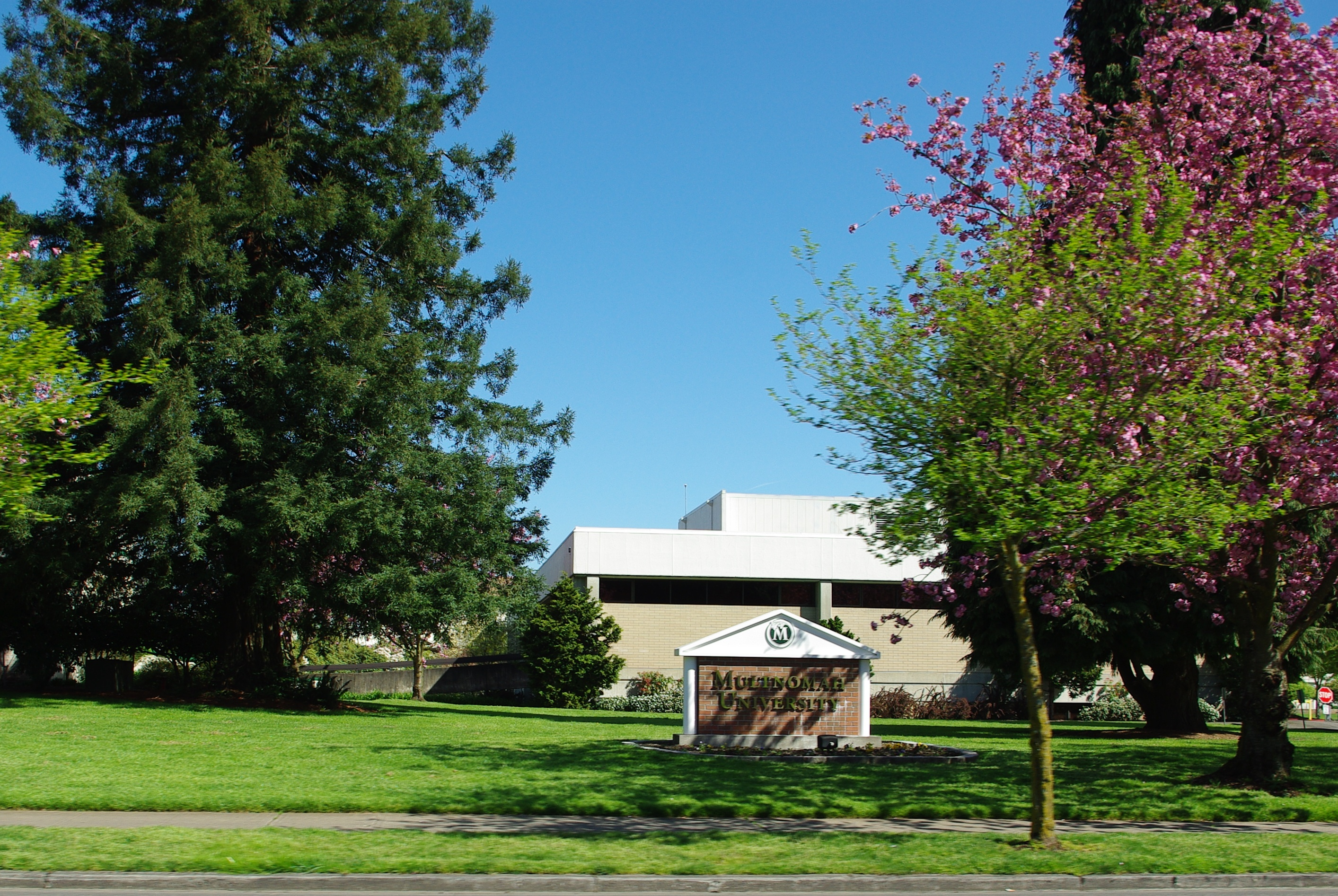 Entrance sign at Multnomah University in Portland, Oregon.